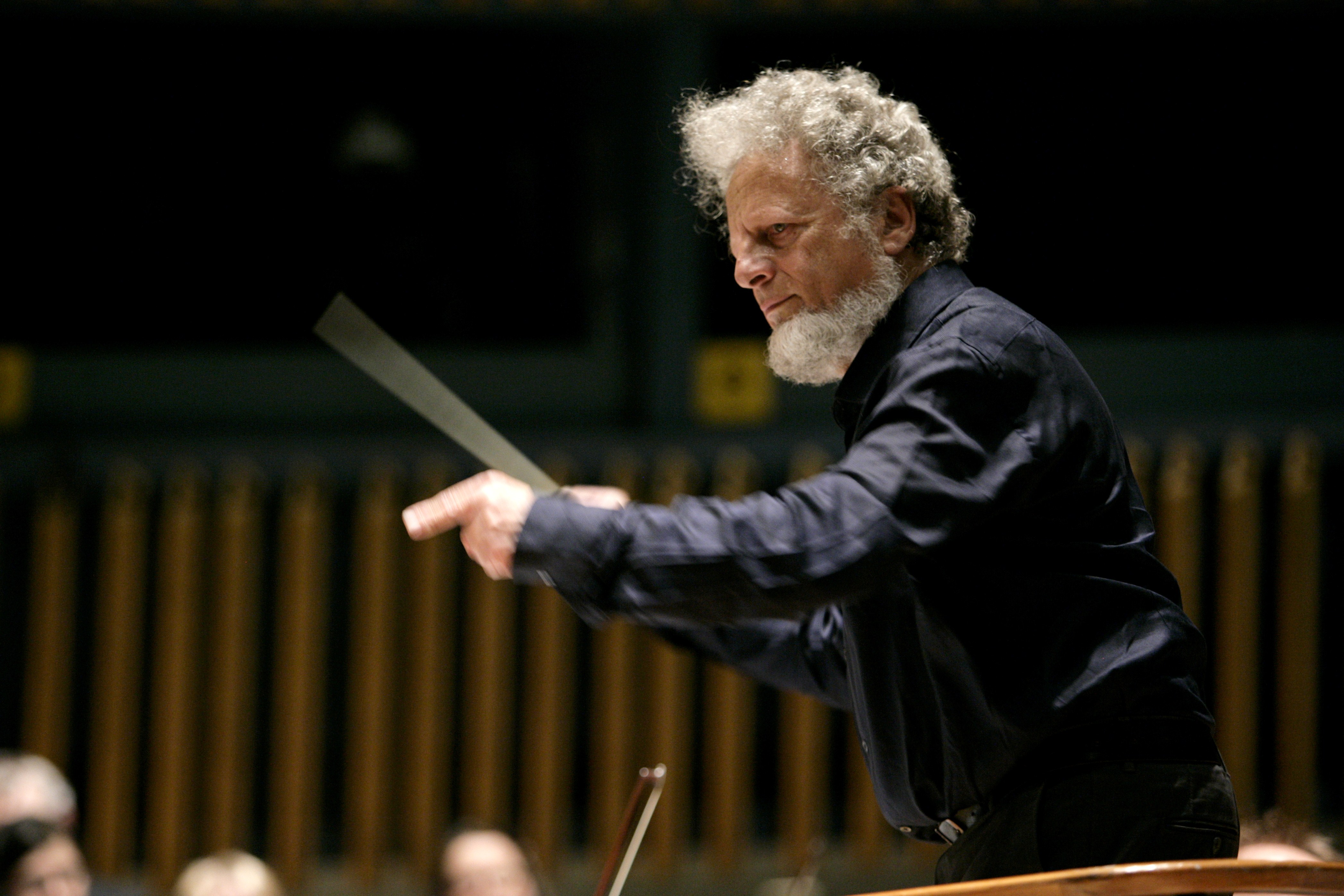 Composer Issak Tavior at rehearsal